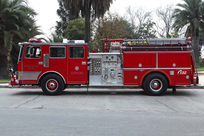 1988 Grumman Firecat fire truck, First Company, Santiago de Chile FD